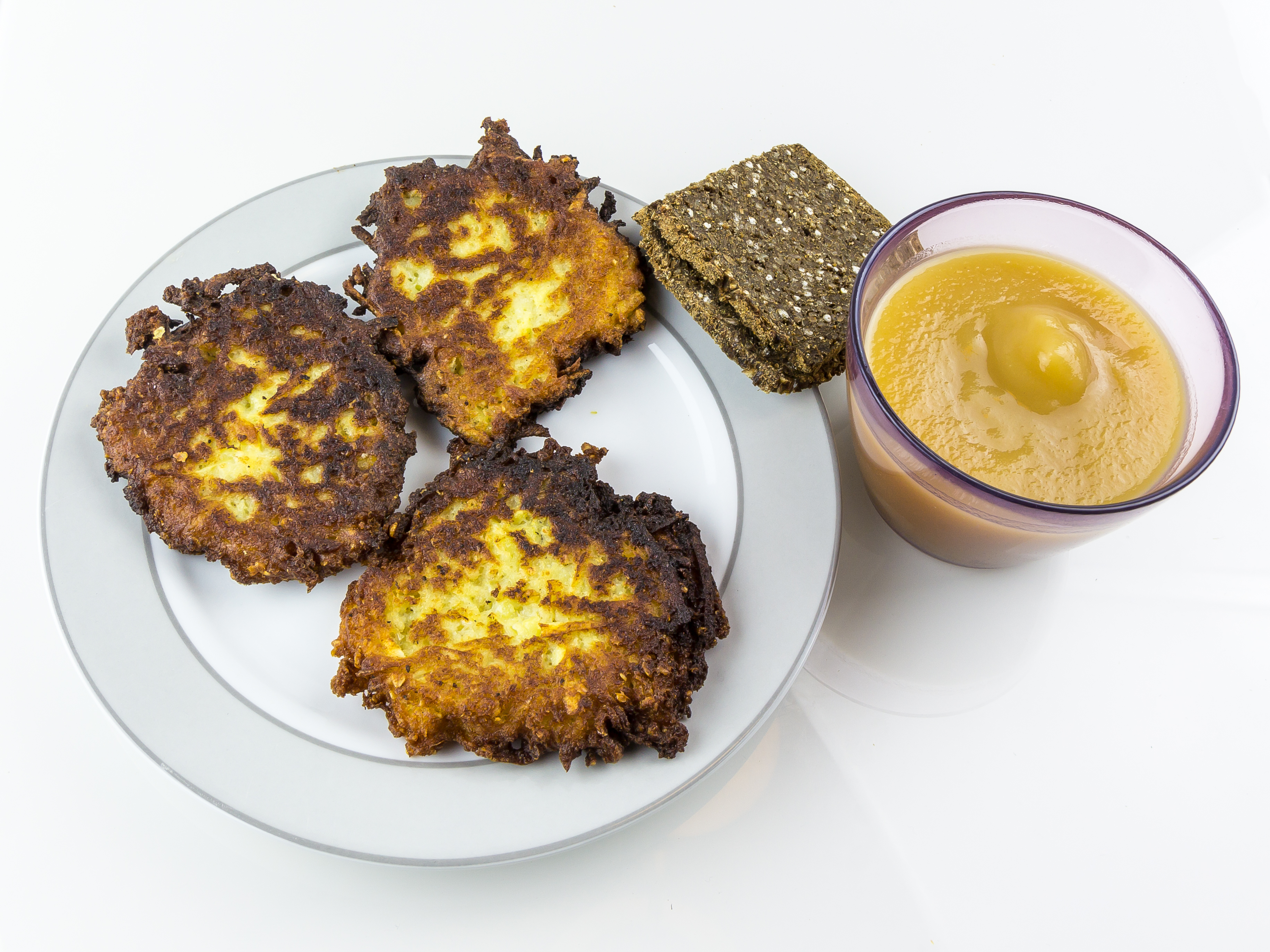 Fresh potato pancakes